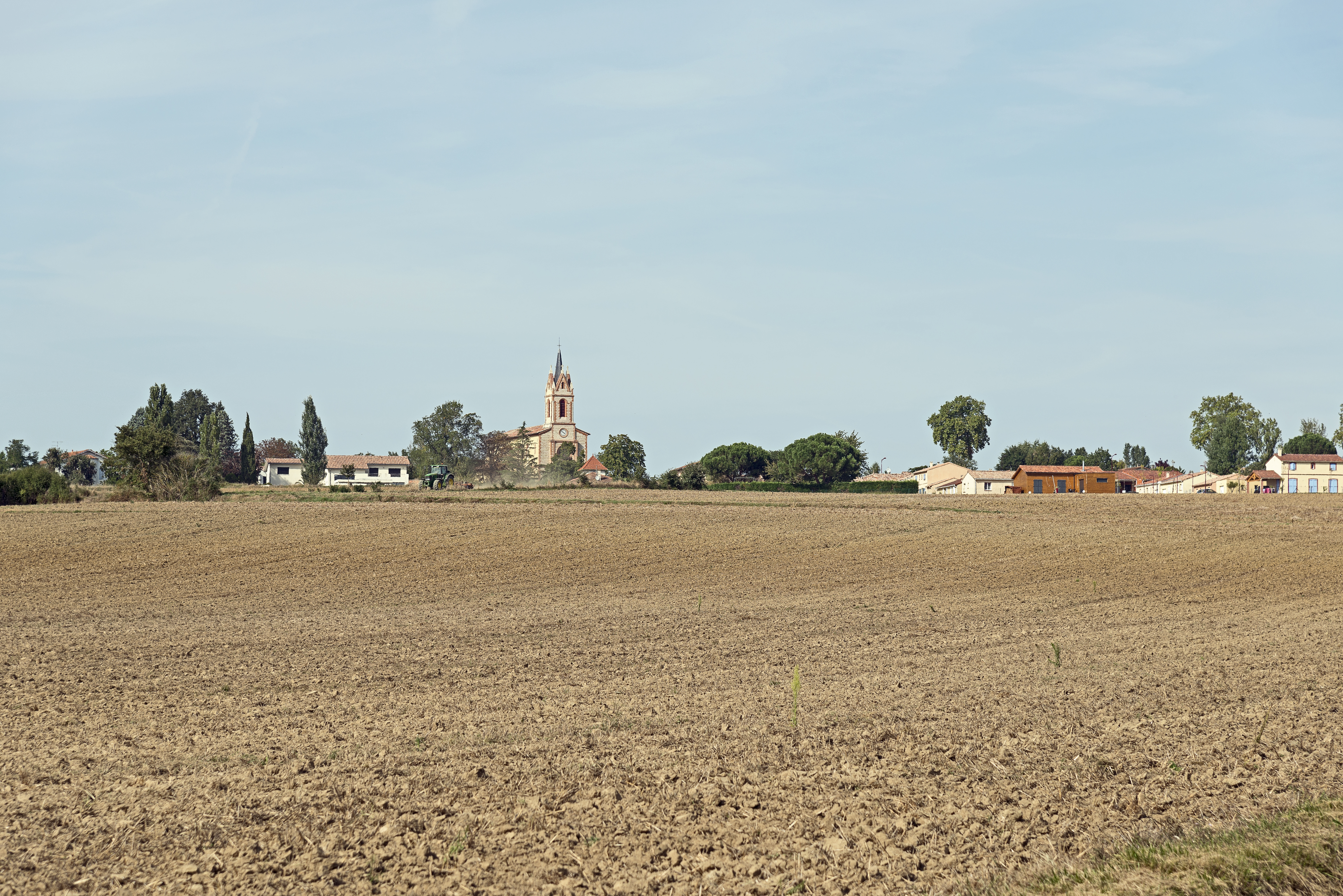 Villeneuve-lès-Bouloc. South entrance of the village.